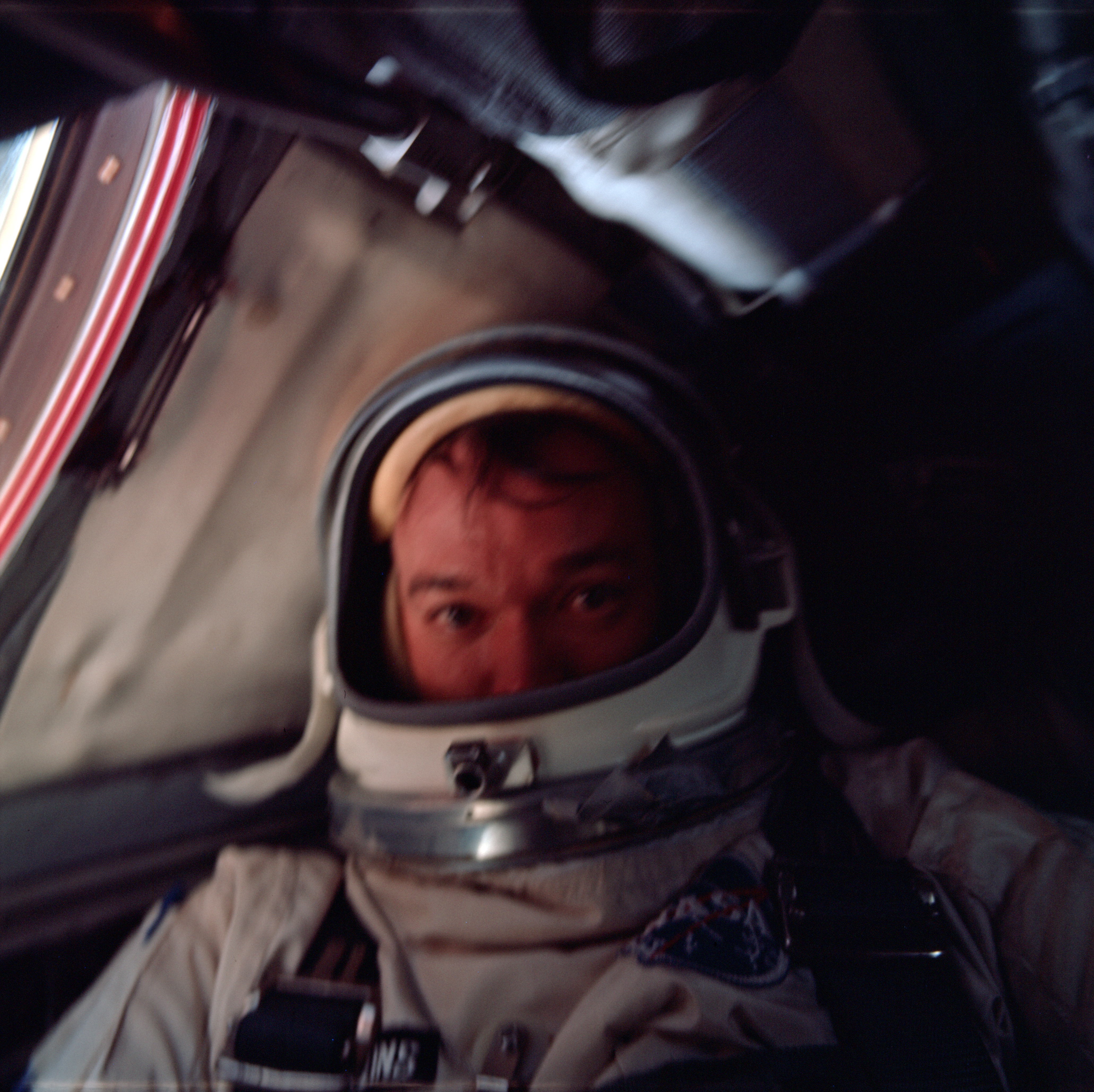 S66-46270 (18 July 1966) --- Astronaut Michael Collins, pilot, is photographed inside the spacecraft during the Gemini-10 mission.